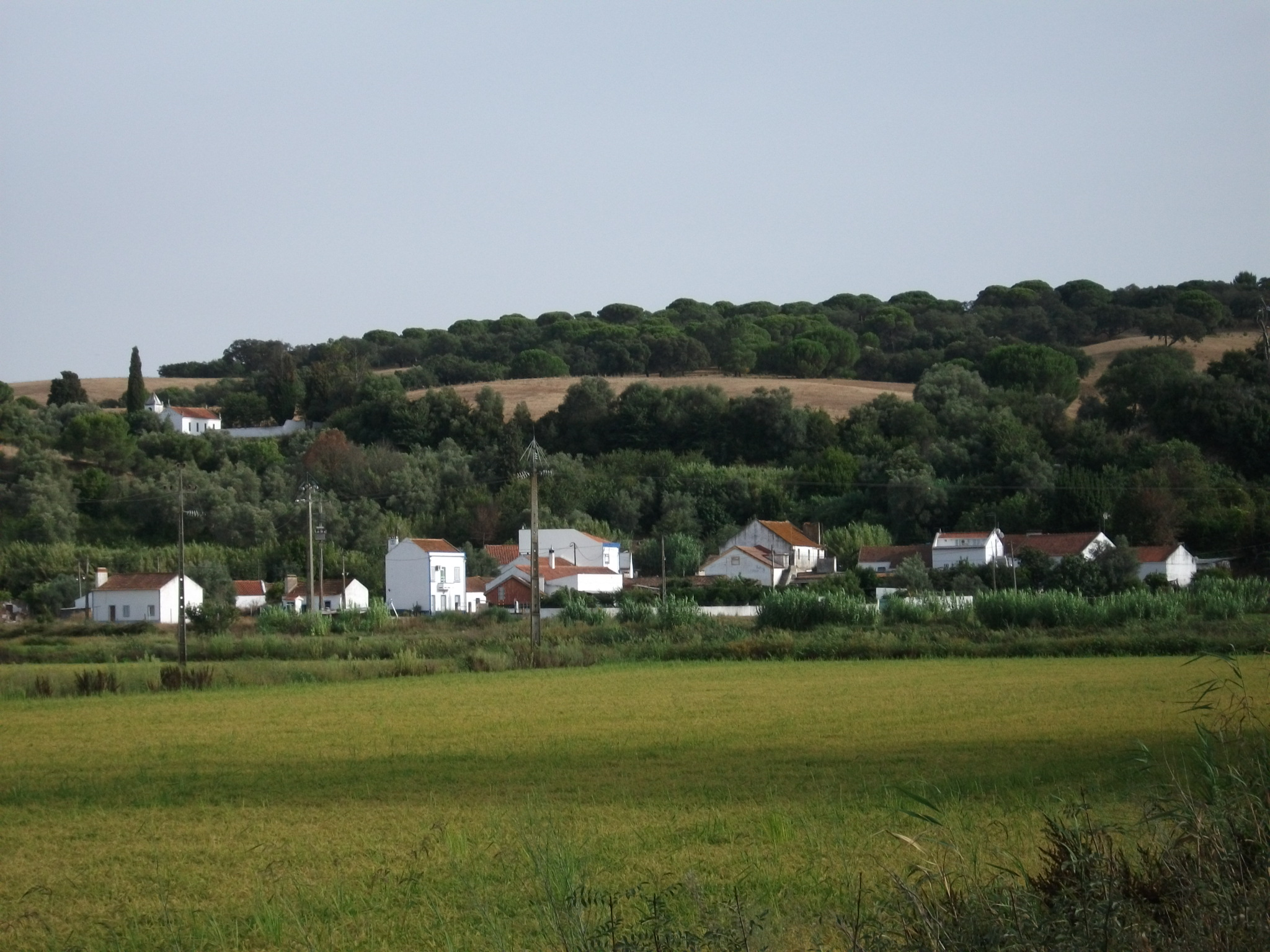 São Romão do Sado village view from the North.